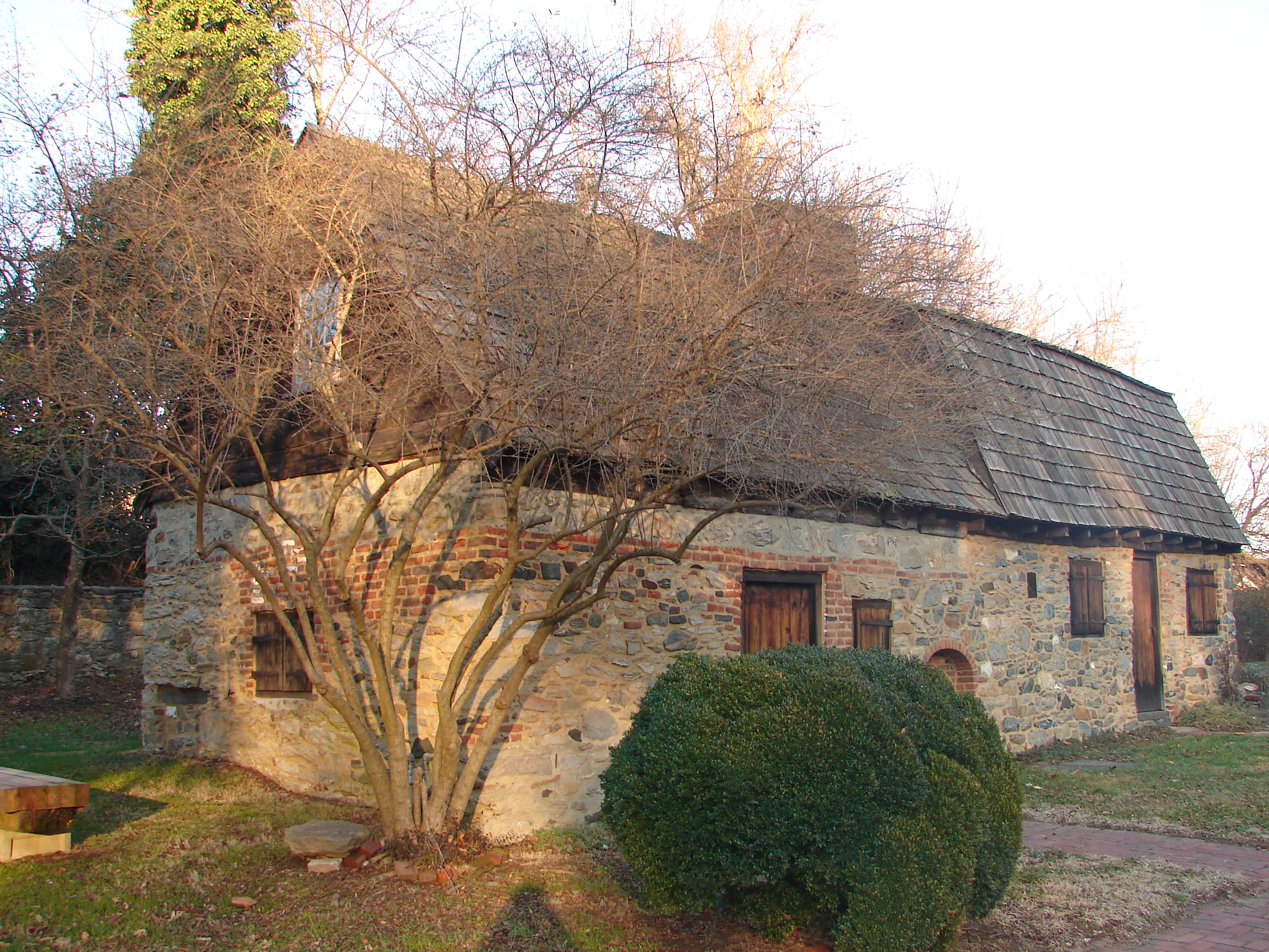 CalebPuseyHouse in Upland, near Chester Donate to Public Domain